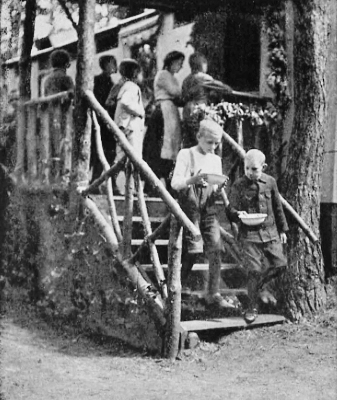 The picture of 1904 shows pupils of Waldschule für kränkliche Kinder (translated: Forest school for sickly children) getting their lunch. The very first open-air school worldwide was meant to prevent children from tuberculosis. It was located in the borrough of Westend, in the city of Charlottenburg, near Berlin, Germany, in the outskirts of Grunewald forest, since 1920 part of Germany's capital.